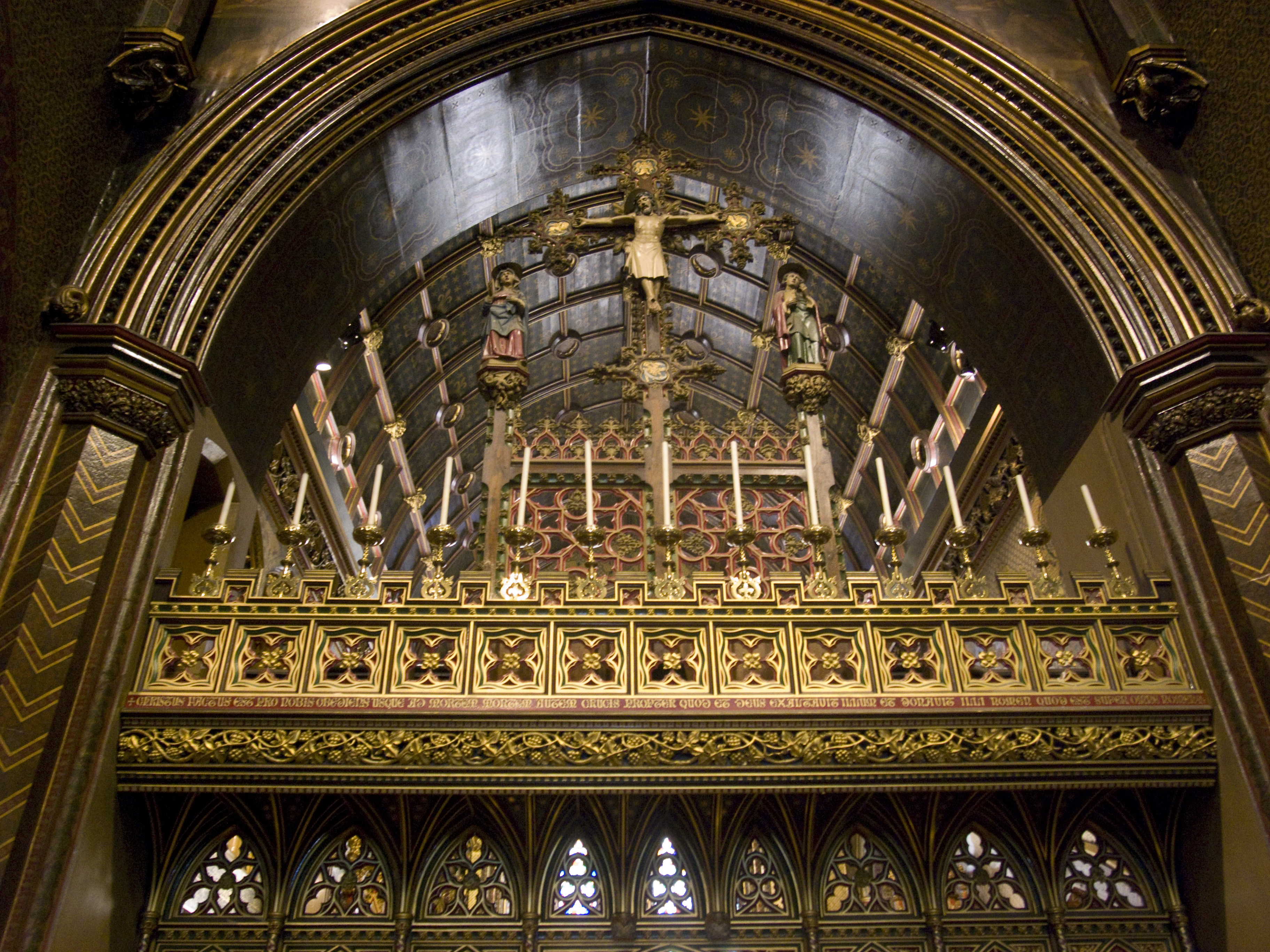 Rood screen of St. Giles' Catholic Church, Cheadle, Staffordshire, England.